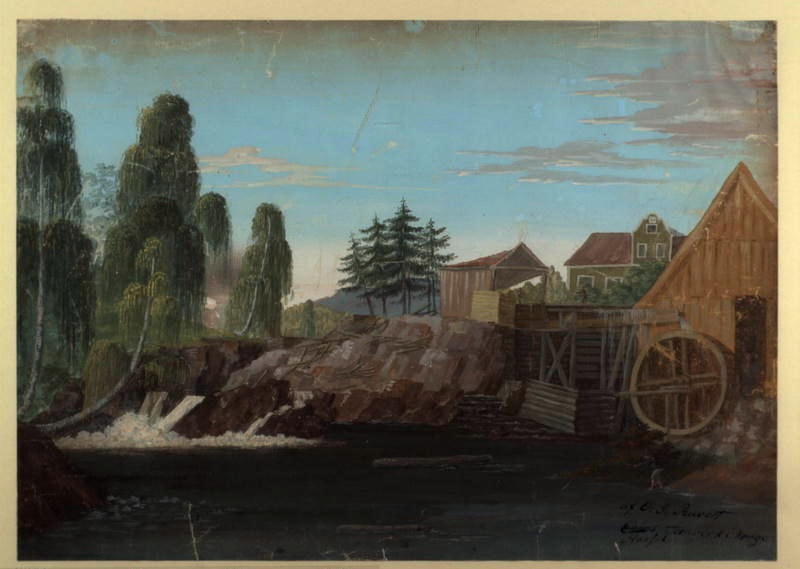 Hassel Ironwork at Modum in Norway